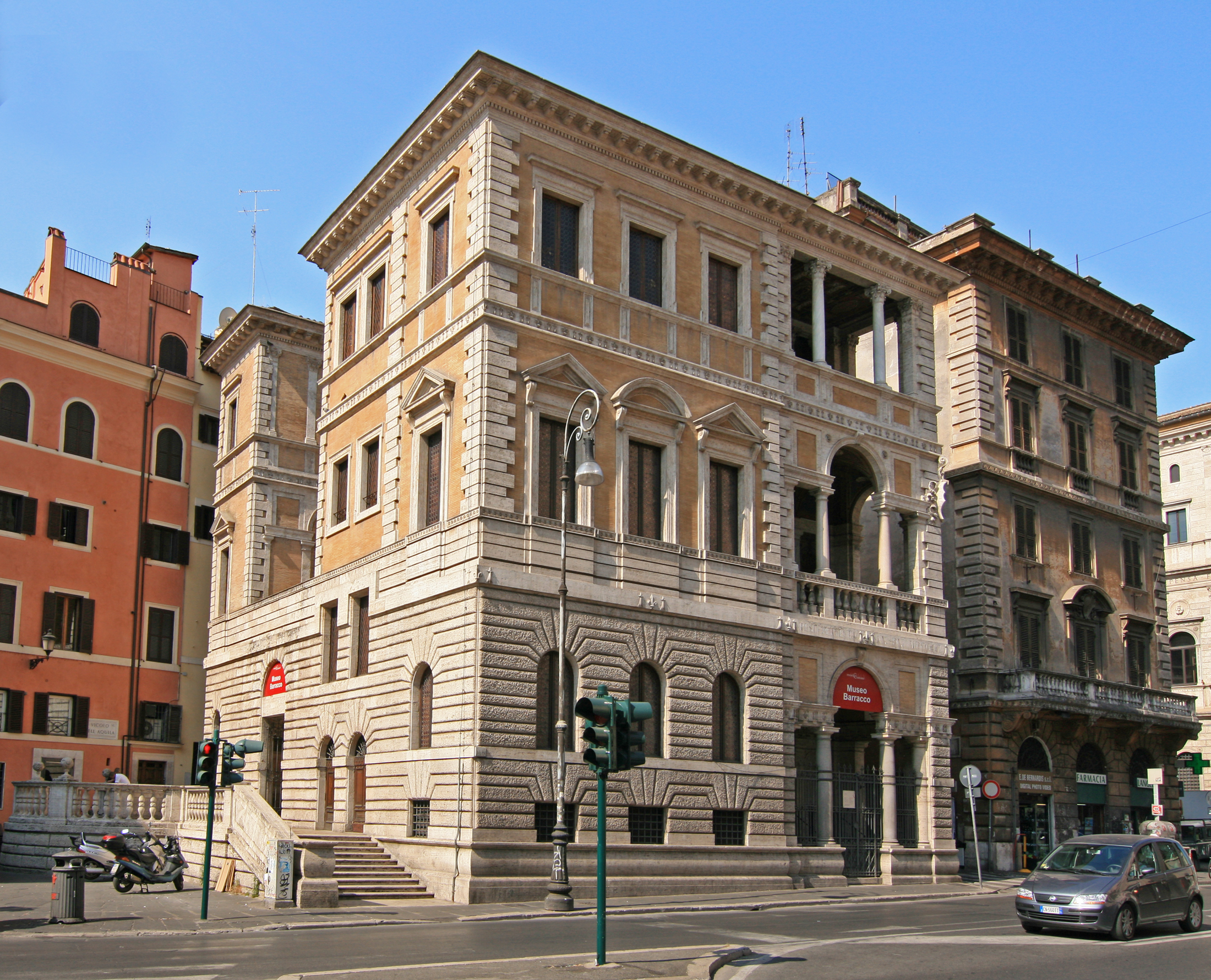 Palazzo Le Roy (Piccola Farnesina), Rome.